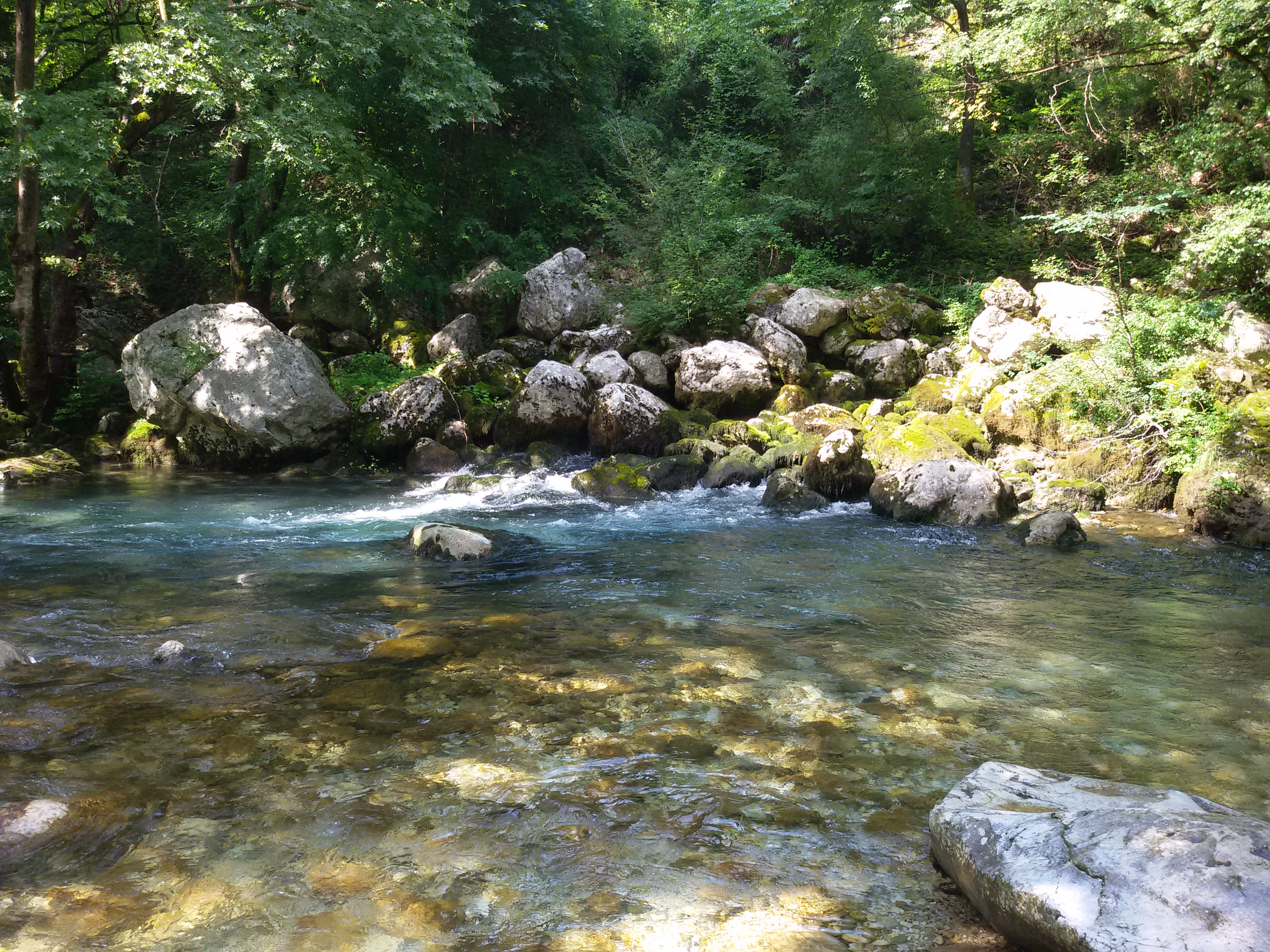 This is a photography of Natura 2000 protected area with ID GR2130009